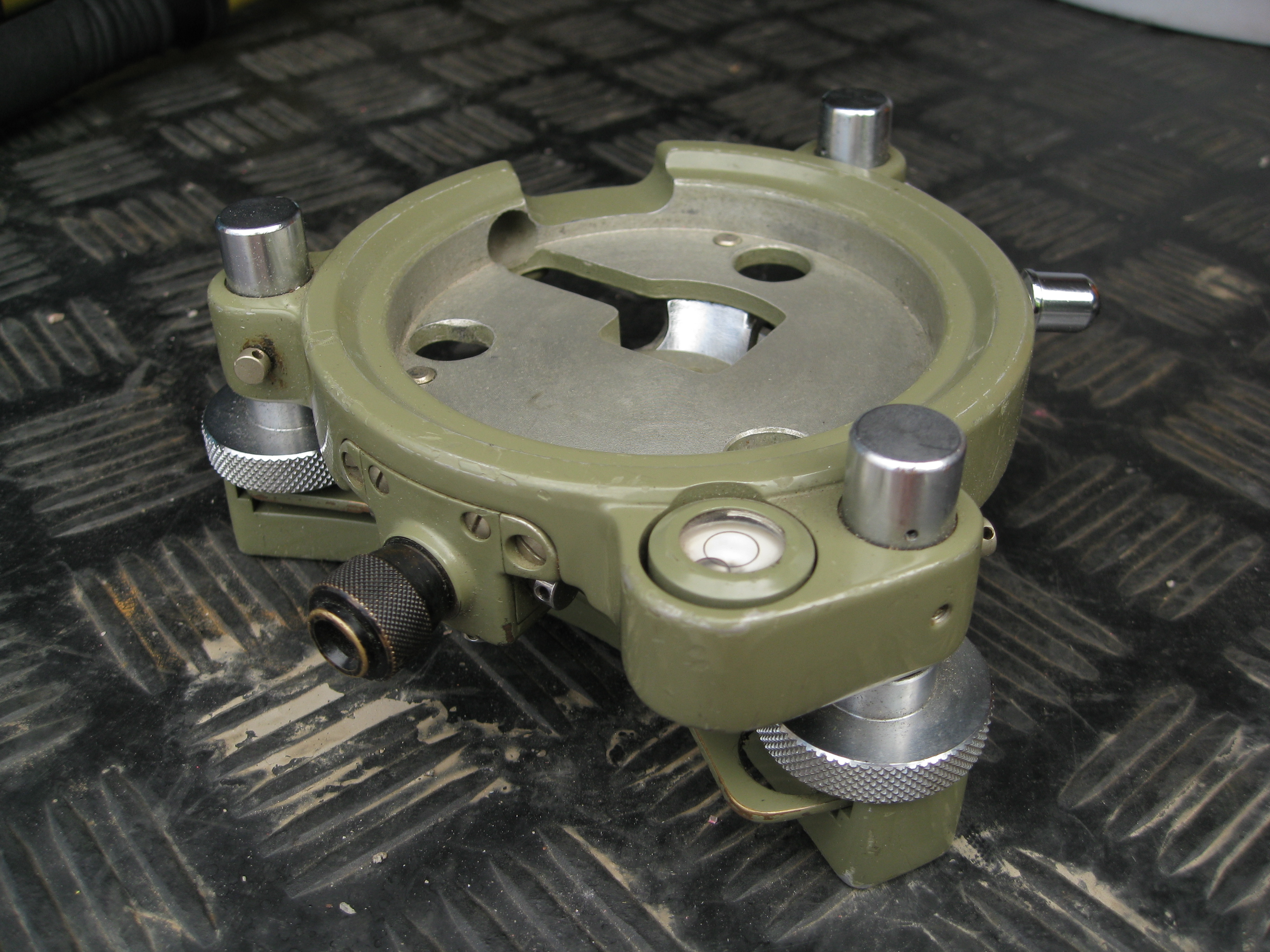 Tribrach with optical plummet for surveying instruments like for example total stations and more modern theodolites. The eyepice for the optical plummet is the black cylinder pointing to the lower left corner of the image.